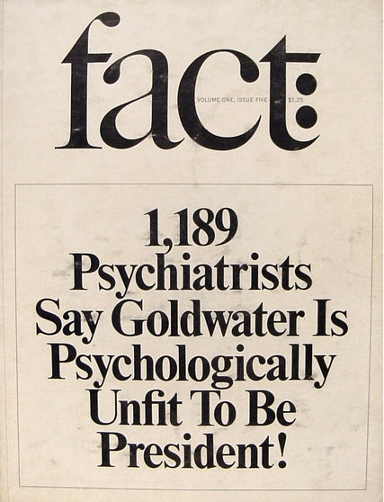 A 1964 article in Fact magazine led to what is known as the Goldwater Rule, the American Psychiatric Association’s declaration that it is unethical for any psychiatrist to diagnose a public figure’s condition “unless he or she has conducted an examination and has been granted proper authorization for such a statement.”